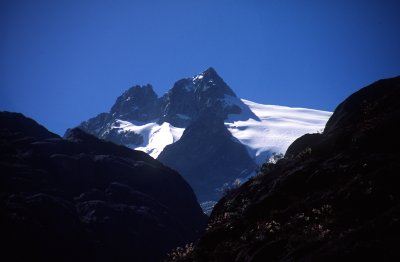 Northern side of Humboldt Peak (Pico Humboldt) as seen from the Coromoto-La Verde trail, Venezuelan Andes.